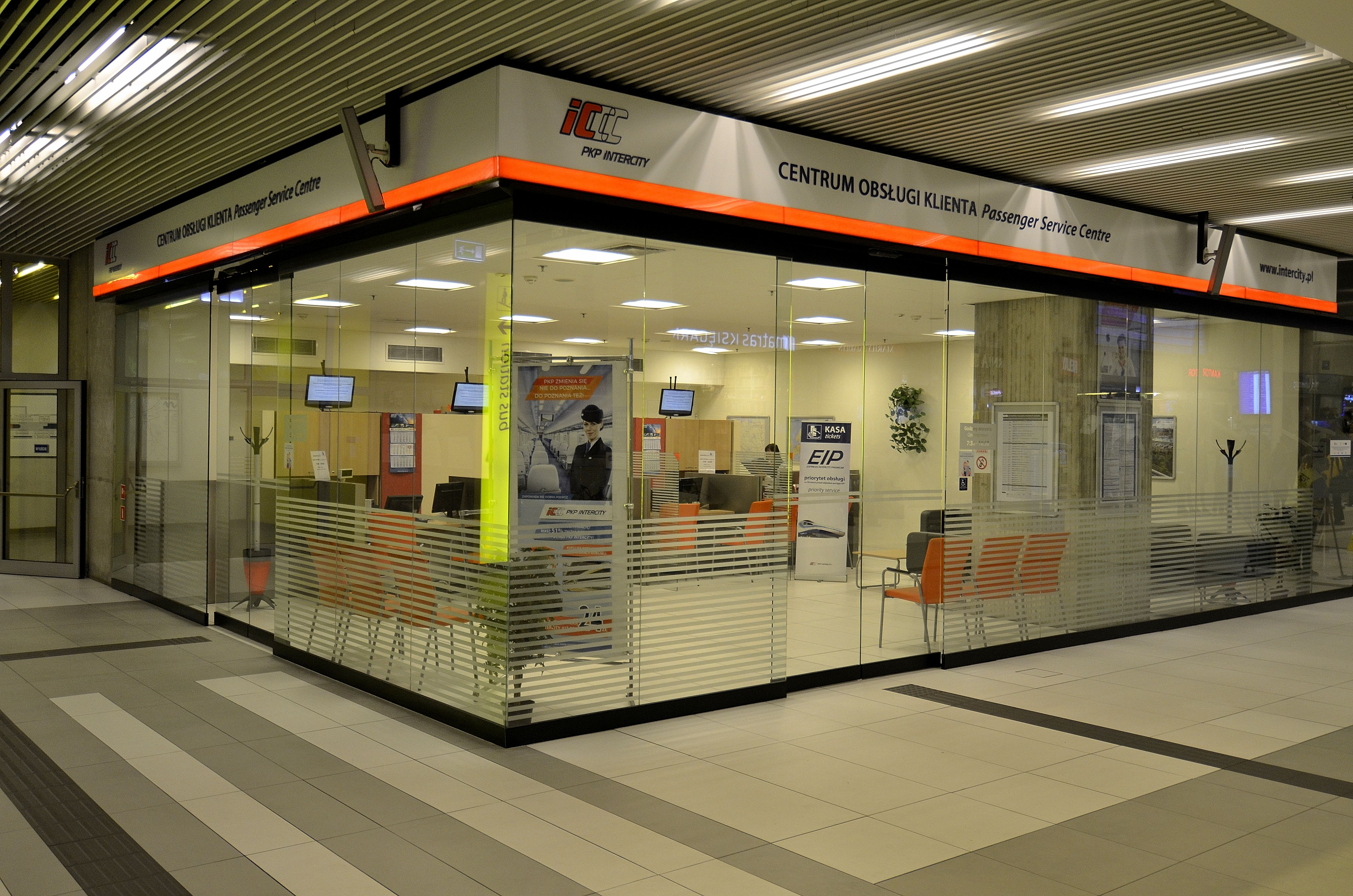 Passenger Service Centre at the Katowice Railway Station